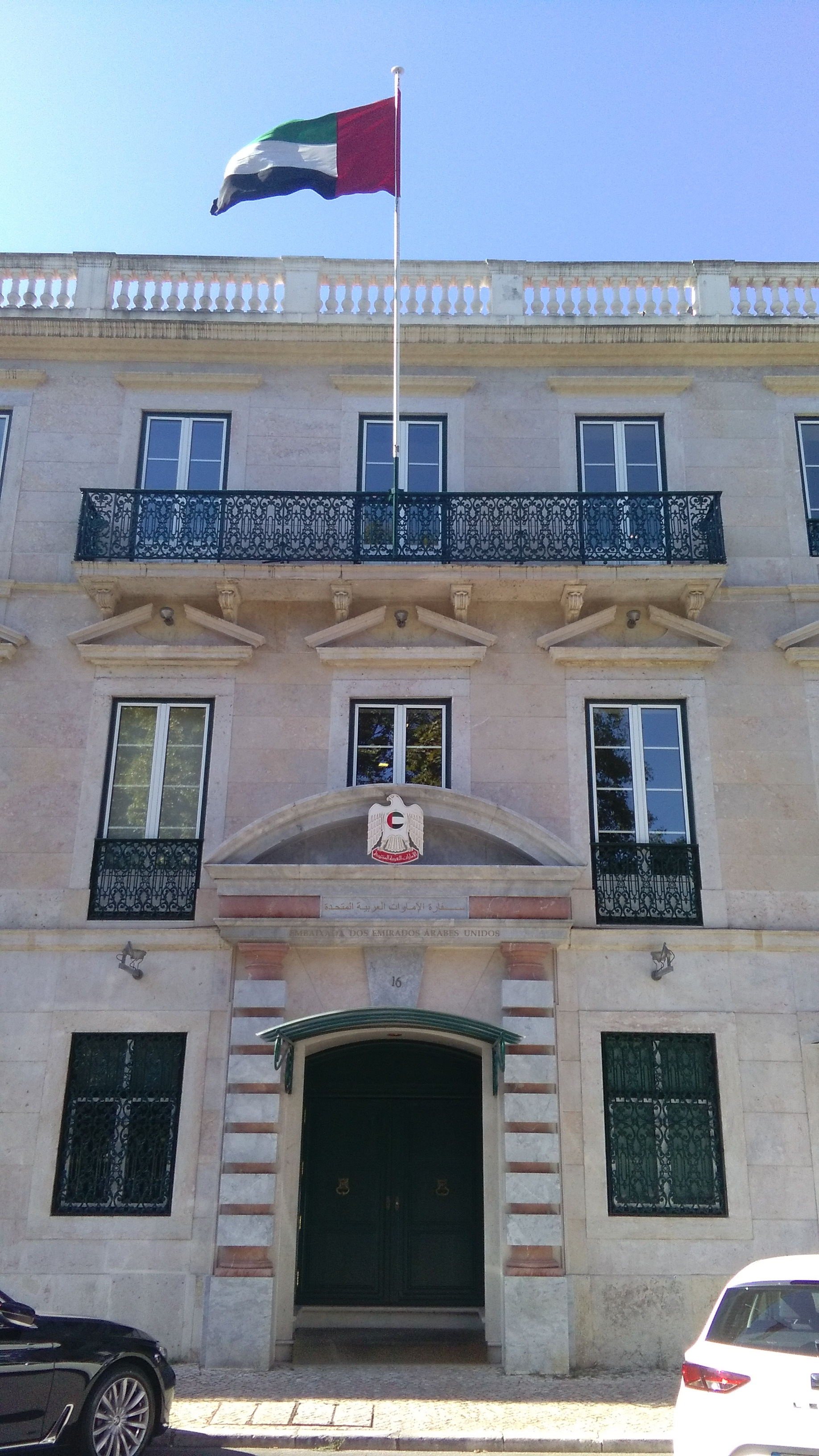 Detail of the building of the Emirati Embassy in Lisbon, Portugal.